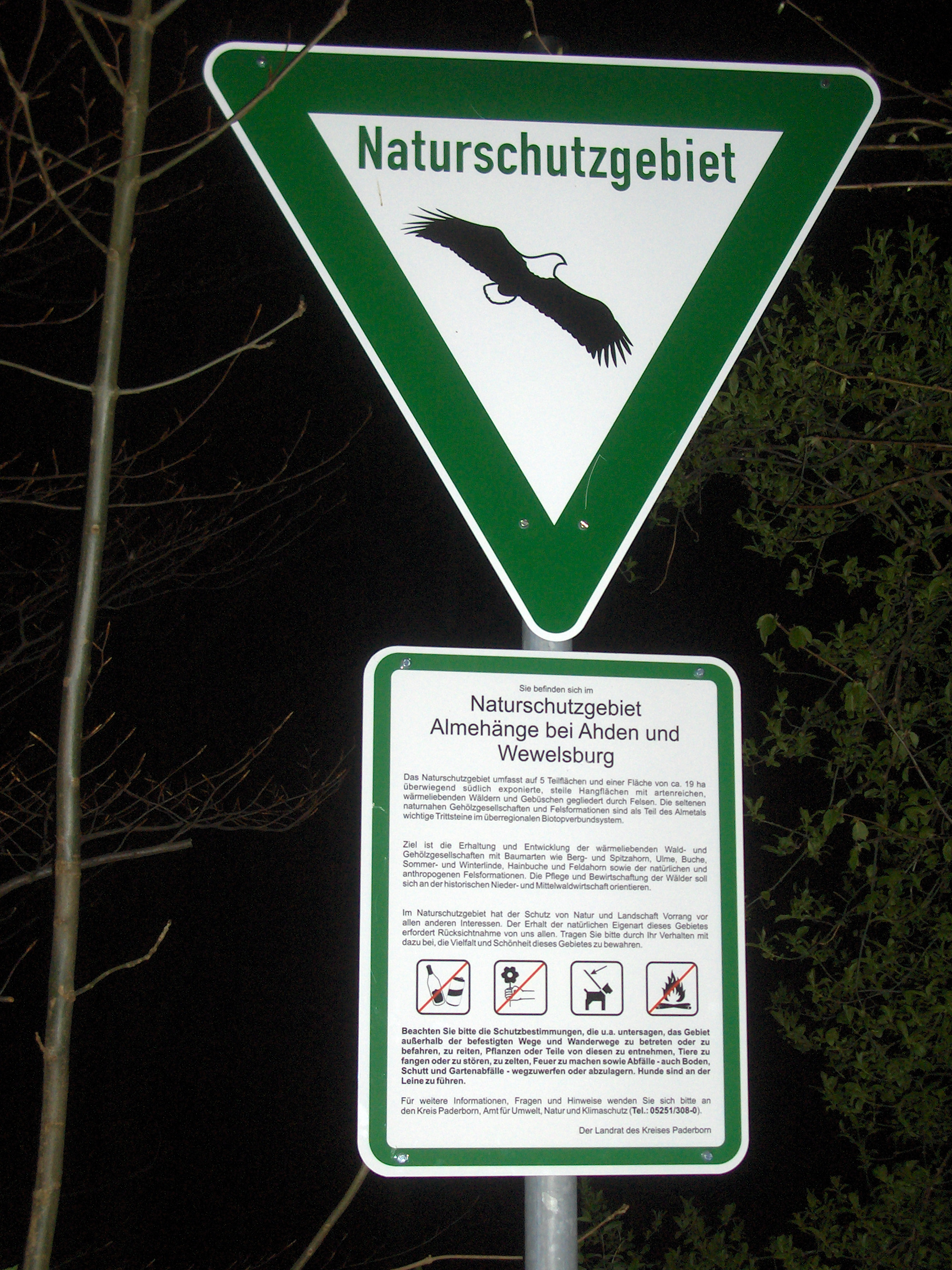 Sign for the nature reserve "Almehänge bei Ahden und Wewelsburg" in Büren-Wewelsburg, North Rhine-Westphalia, Germany